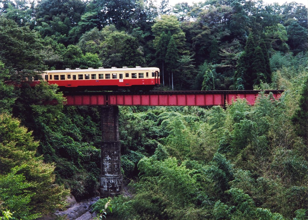 The poster took the picture.